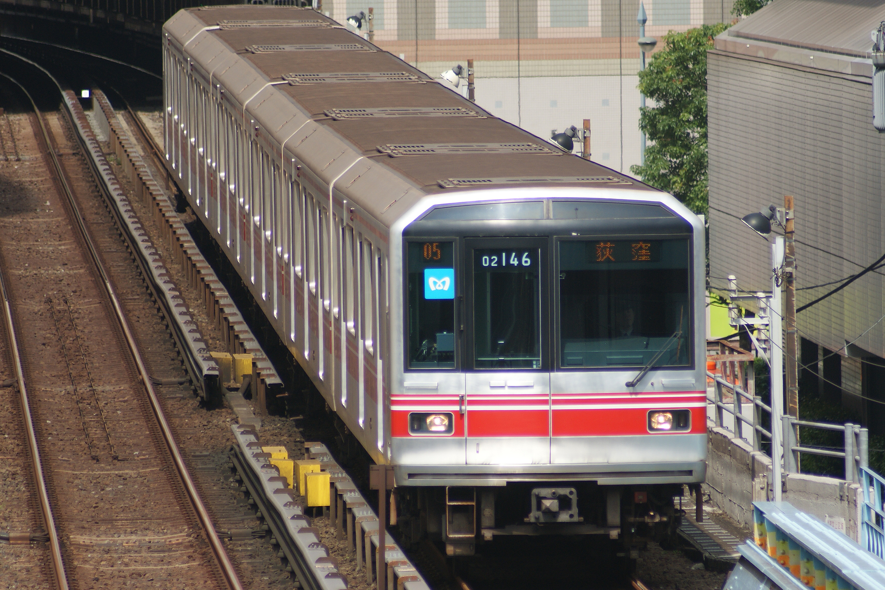 Tokyo Metro series 02 EMU, Marunouchi-line.